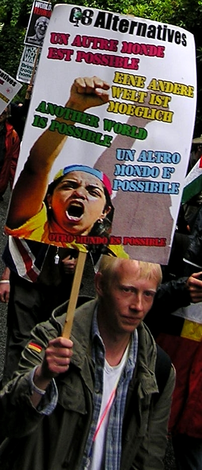 Photo of protester holding G8 Alternatives placard on anti-G8 protest in Glenegles, 2005